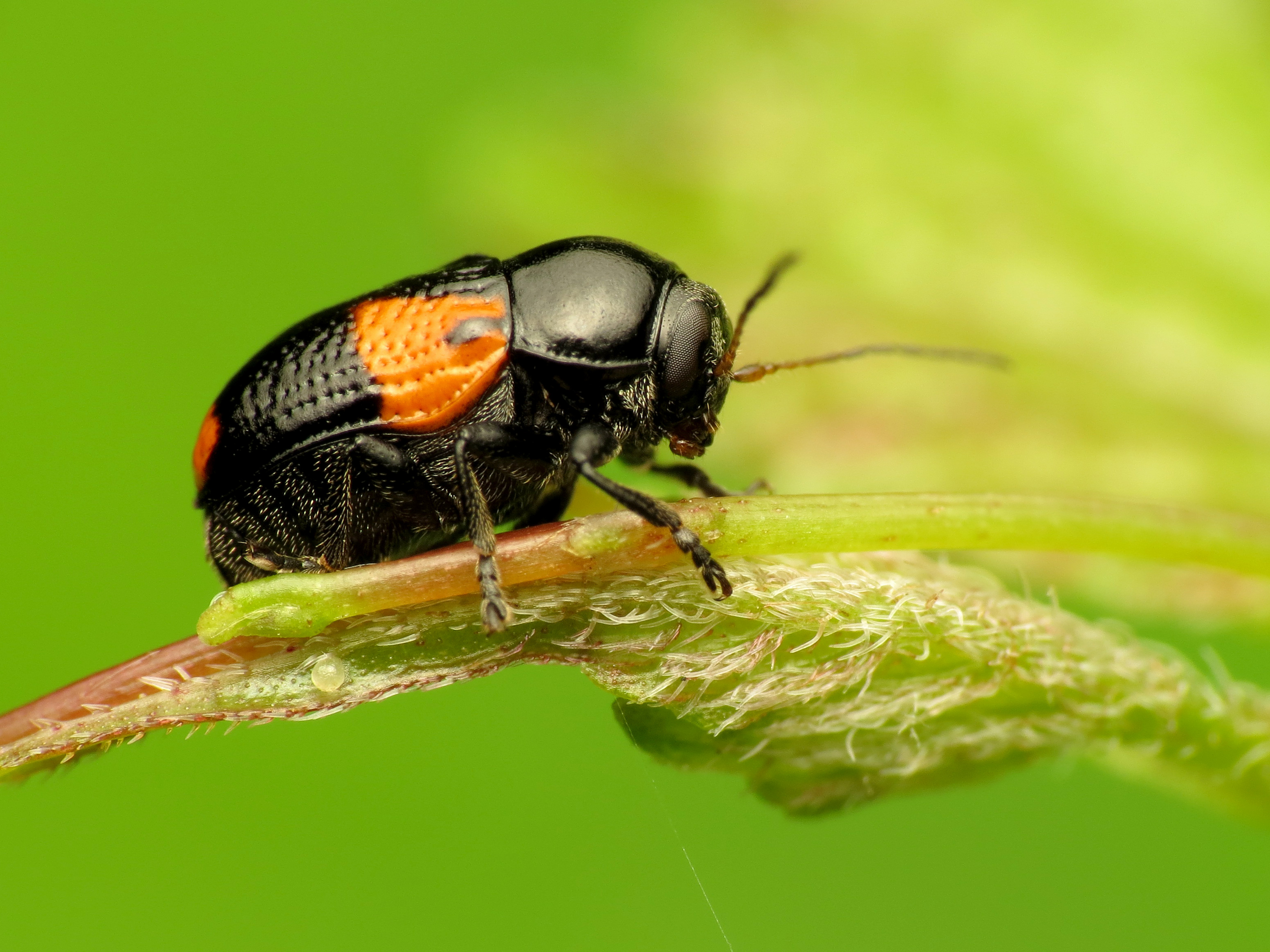 Cryptocephalus quadruplex. Rock Creek Park, Washington, DC, USA.